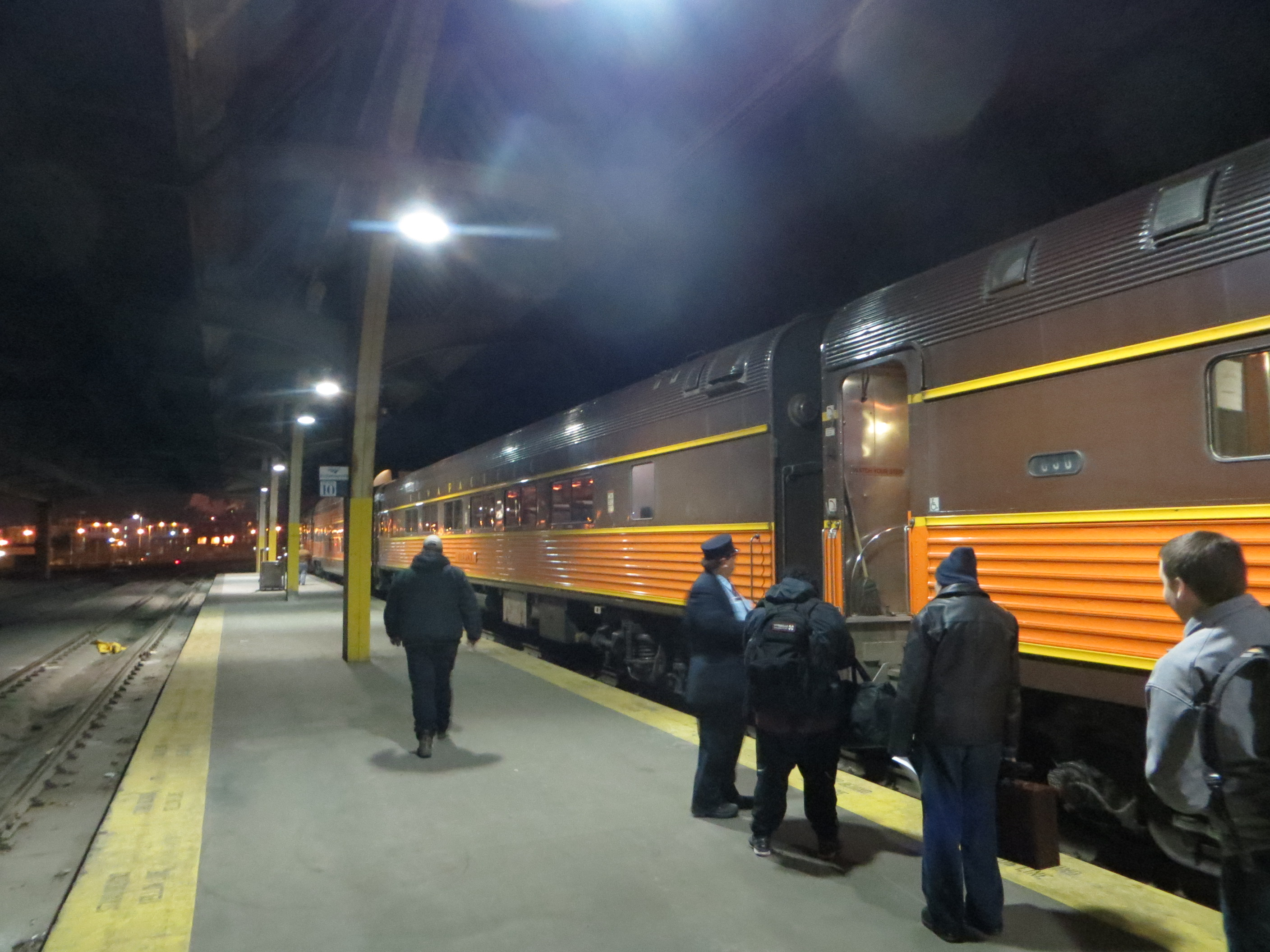 The Hoosier State with Iowa Pacific equipment at Indianapolis in February 2017